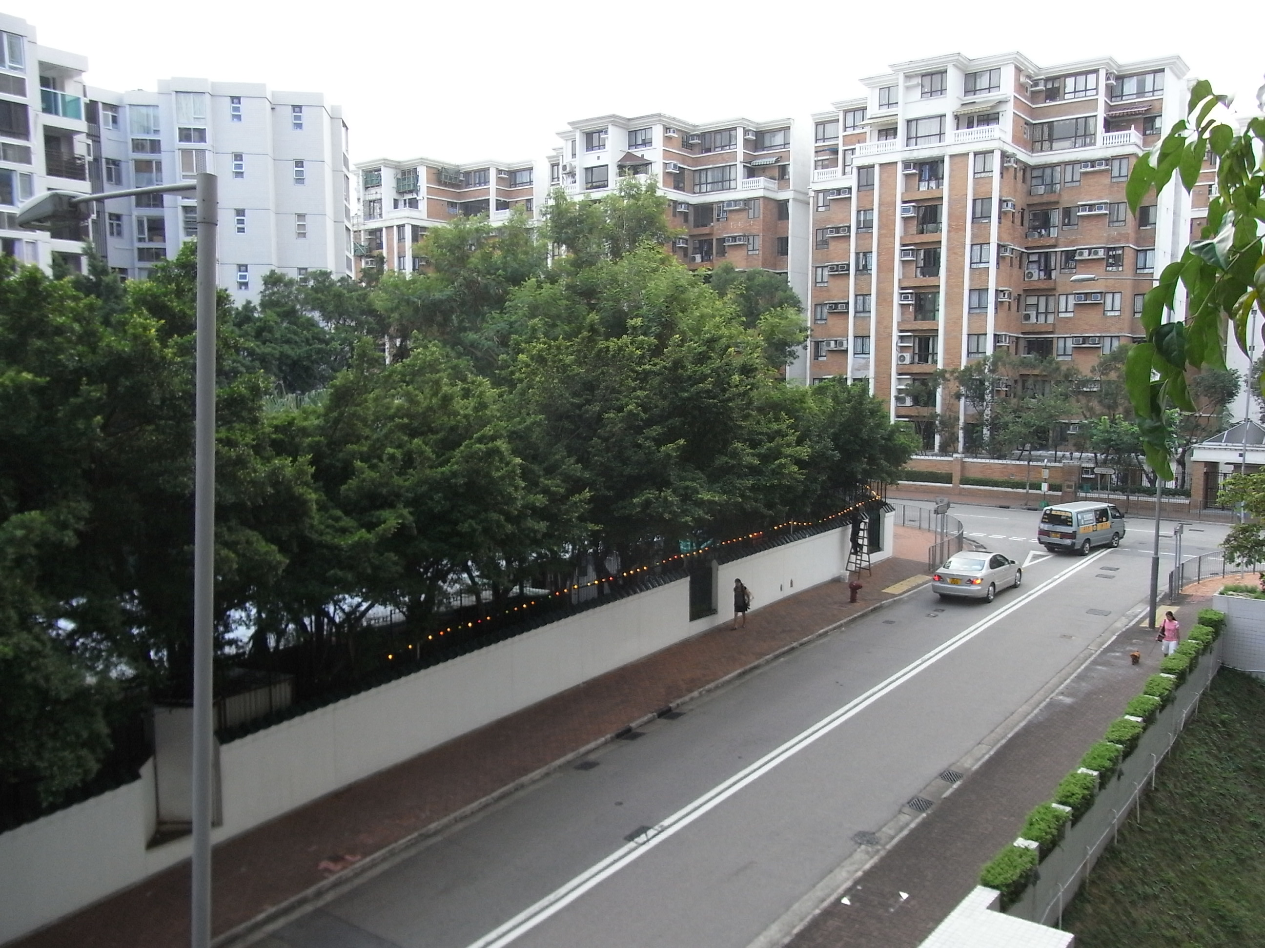 九龍塘 view from InnoCentre, Tat Chee Avenue, Kowloon Tong, Hong Kong